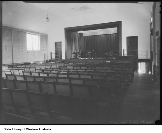 A photograph of the Myola Club Hall taken in August, 1935